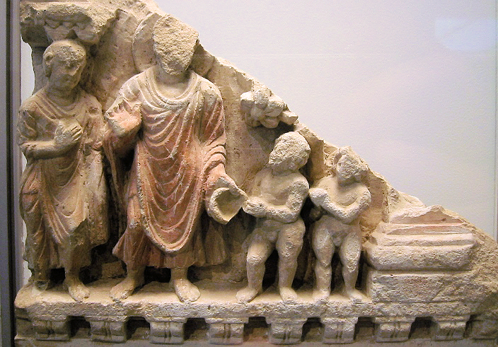 Scene of the Gift of Dirt mentioned in Ashokavadana: In his previous birth as a young boy named Jaya, the Mauryan emperor Ashoka gifts Gautama Buddha a bowl of dirt, dreaming that the dirt is food. Gandhara, 2nd century CE. Musee Guimet (Paris), personal photograph 2006.